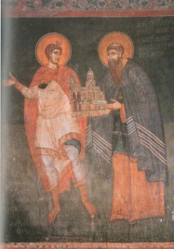 The Church of the Virgin, founder's portrait of Archbishop Danilo II with Prophet Daniel, 1330s fresco near portal.